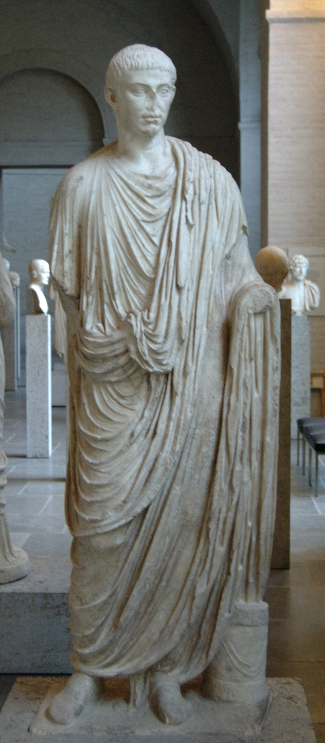 Statue of a young Roman wearing toga, 20–30 CE. The toga marks its condition of Roman citizen. Next to his feet, a basket contains written rolls.